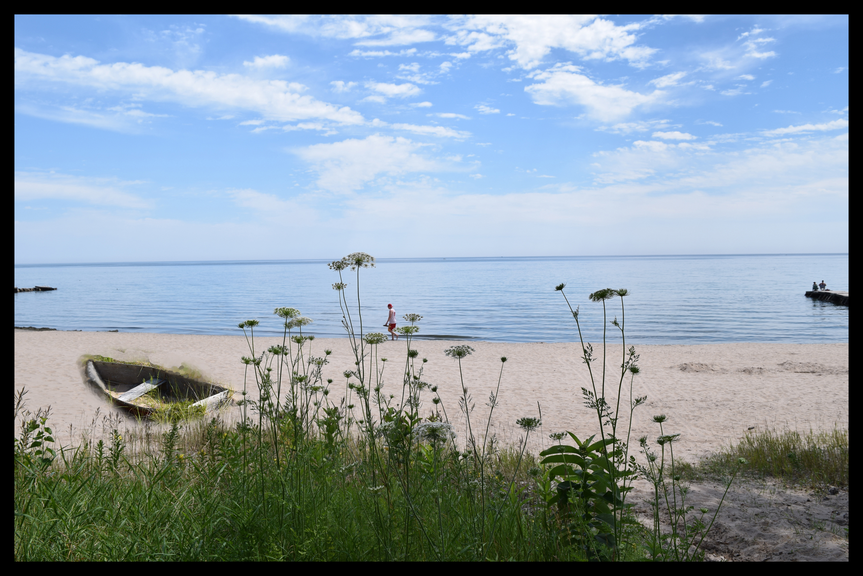 This public beach on Lake Michigan is located north and east of downtown Sheboygan.